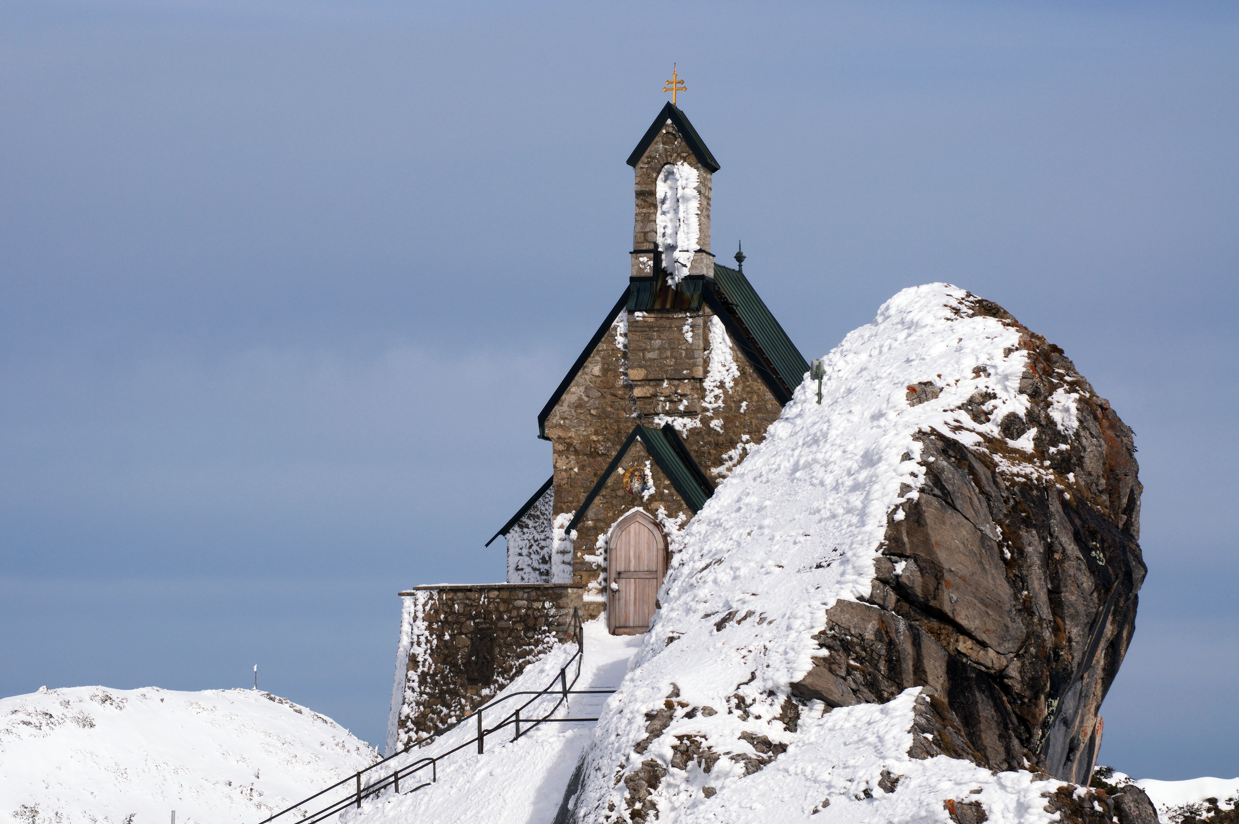 Church at the summit of the Wendelstein mountain, Bavaria, Germany.